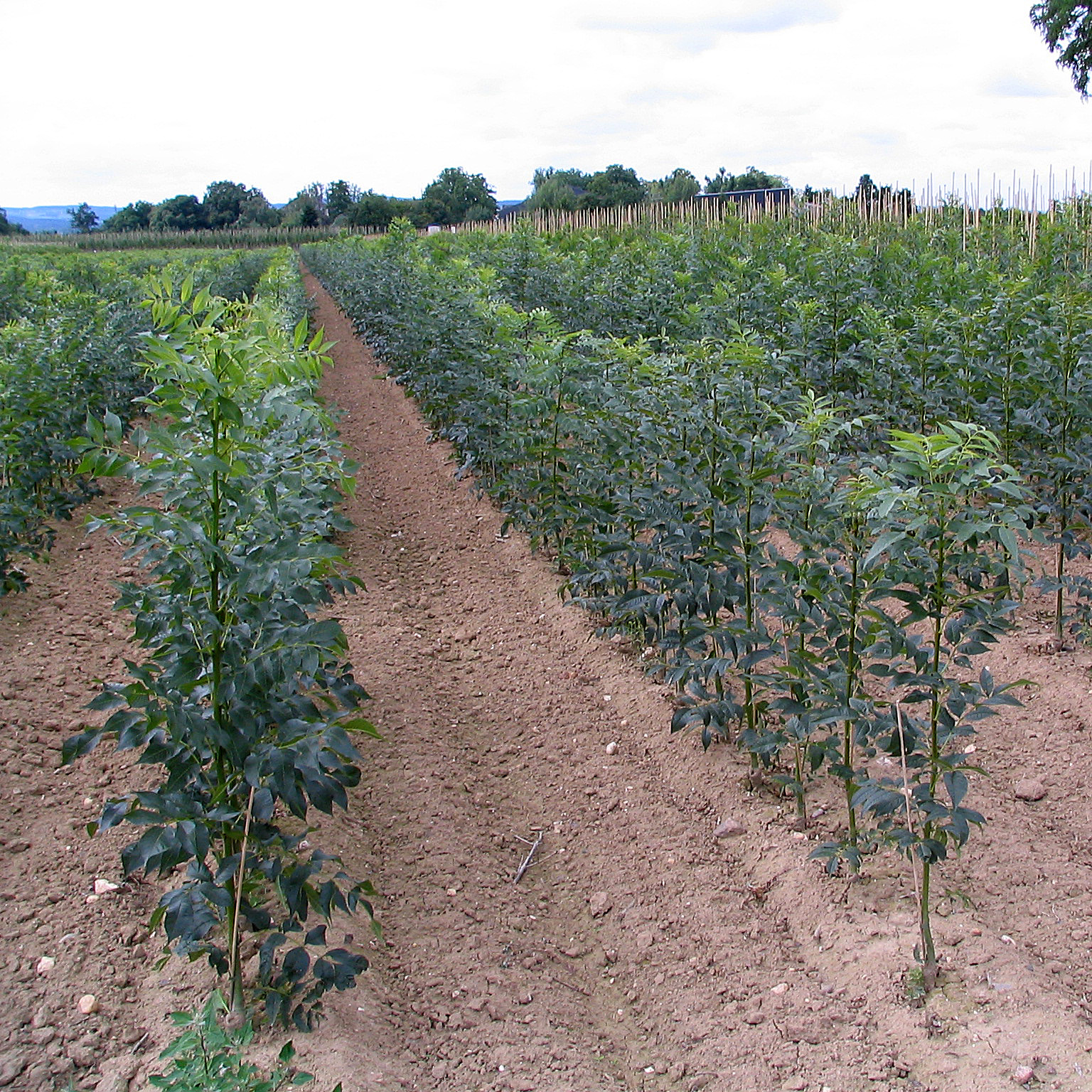 Fraxinus CVS 1x transplanted Ley baumschule